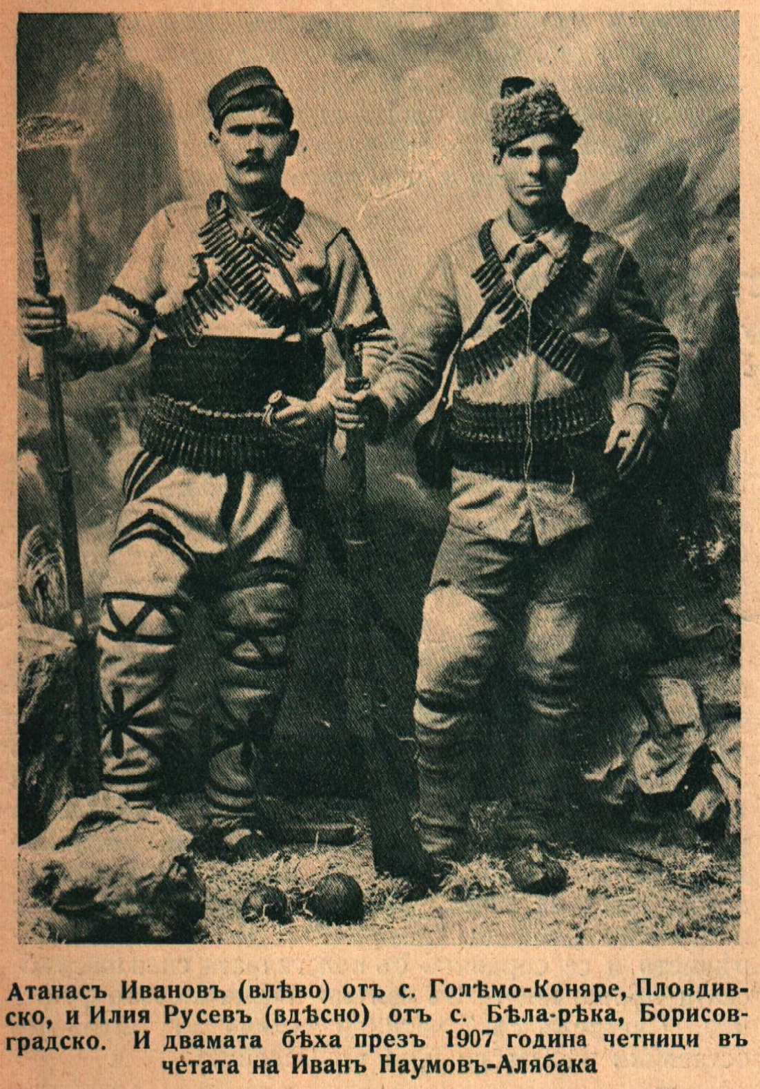 A photograph of the freedom fighters Atanas Ivanov and Iliya Rusev, members of the revolutionary band of Ivan Naumov Alyabaka.